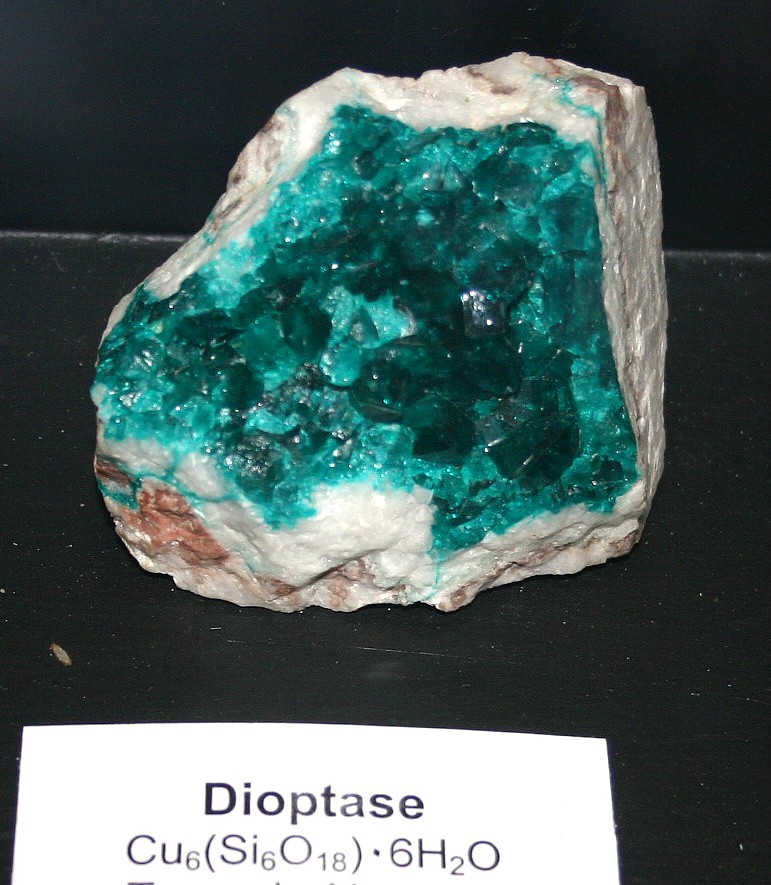 Source: Chris Ralph. This photo taken by Chris Ralph of [1], Photographer and author: photo taken by author.